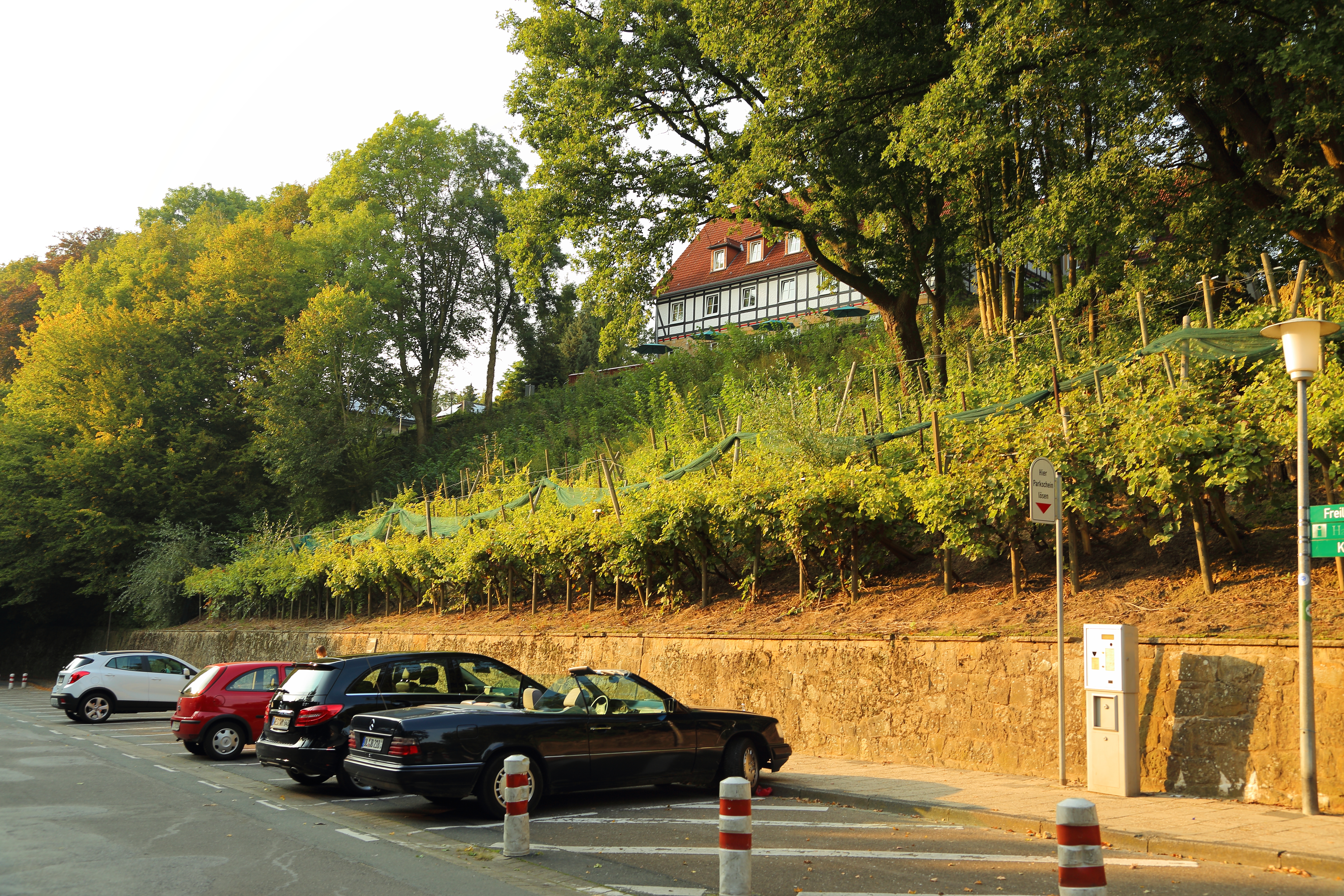 The vineyard of Tecklenburg, Kreis Steinfurt, North Rhine-Westphalia, Germany.